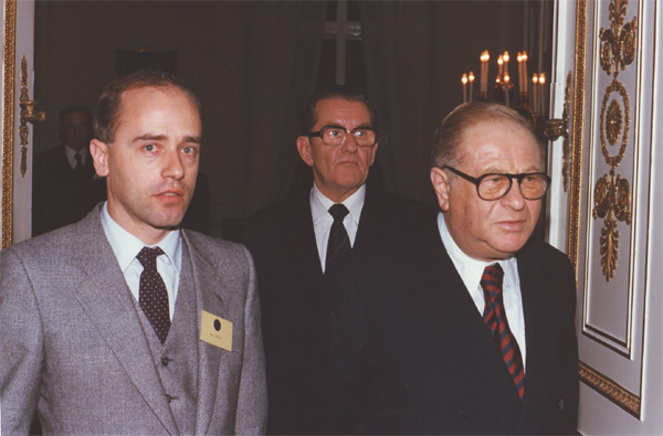 Austrian Chancellor Dr. Bruno Kreisky (right) with Dr. Hans Koechler